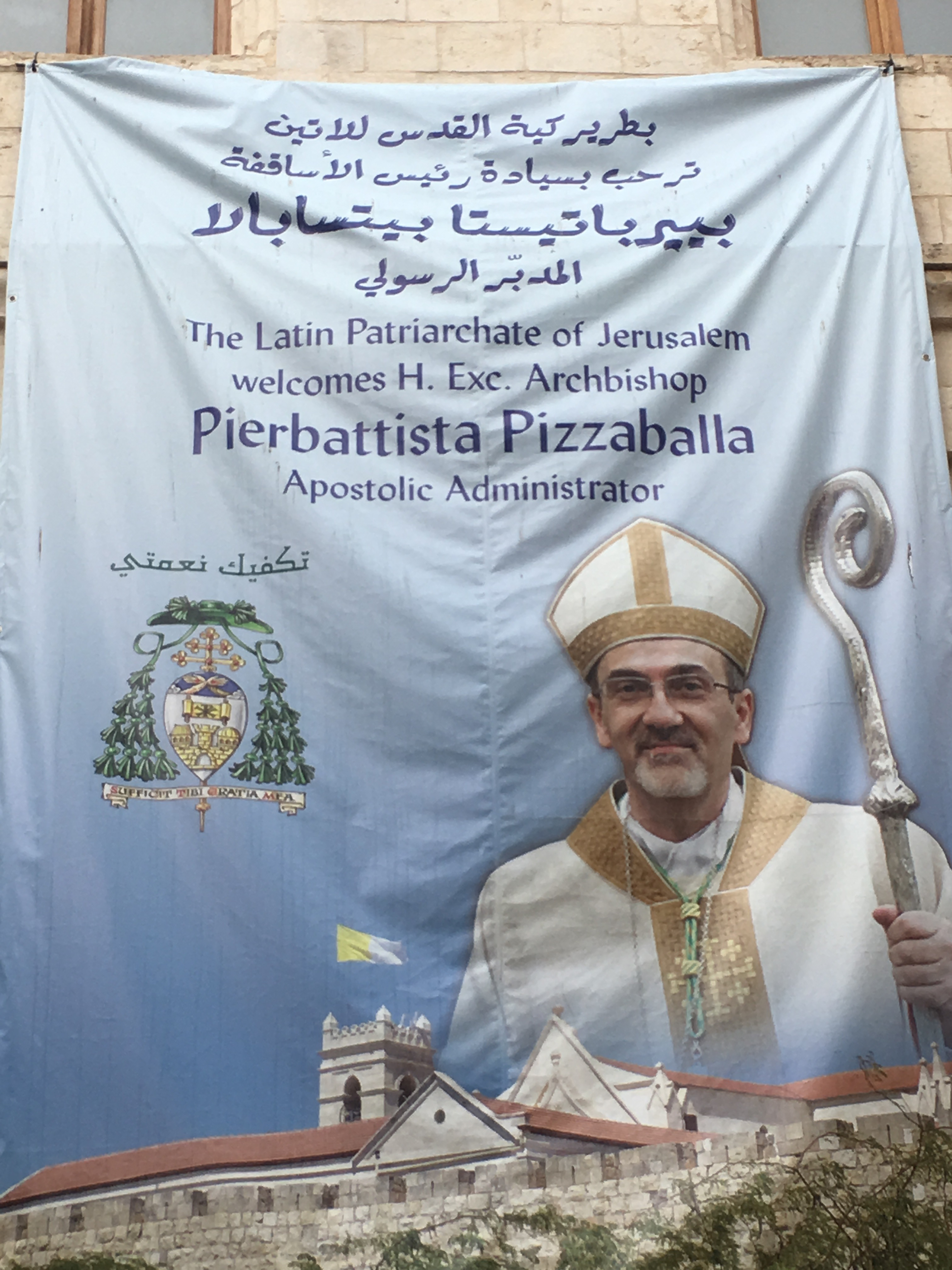 Poster Pierbattista Pizzaballa (Latin Patriarchate of Jerusalem)